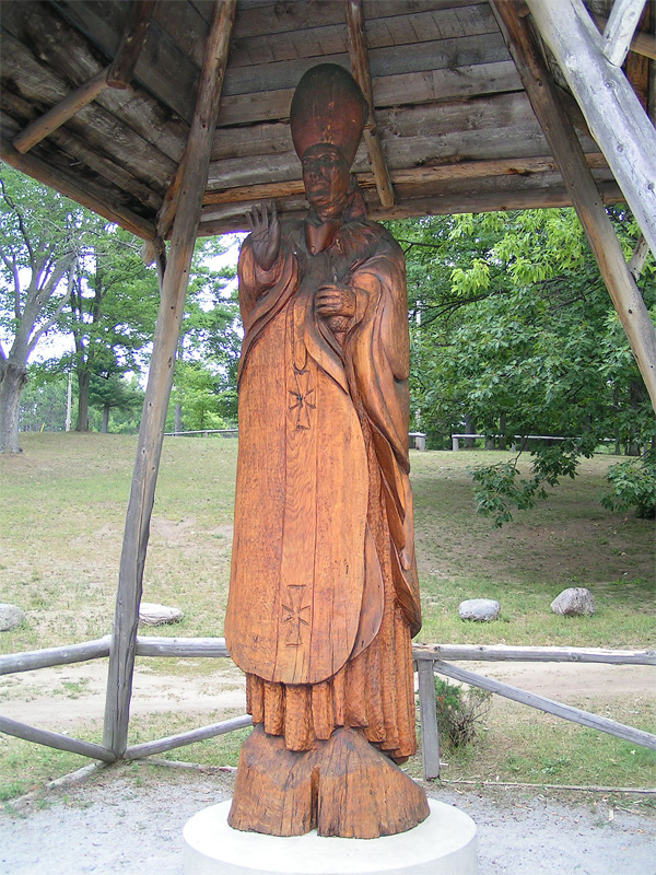 Martyrs' Shrine, Midland, Ontario, Canada. Statue of John Paul II carved in a century-old oak tree, a work by the First Nations to commemorate the Pope's visit in 1984.